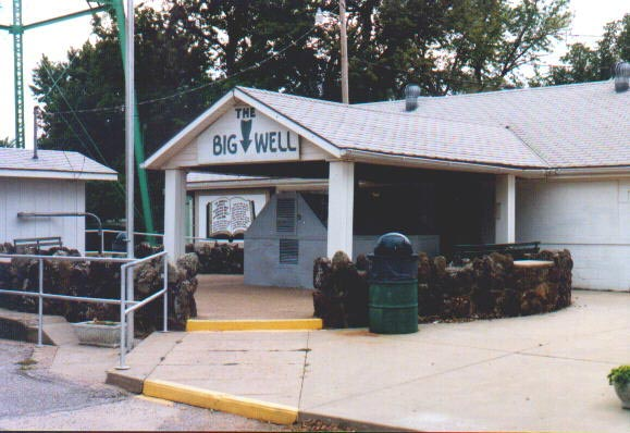 The Big Well Visitor Center in Greensburg, Kansas, United States. Built in 1887, it was destroyed by a 2007 tornado, but remains listed on the National Register of Historic Places.